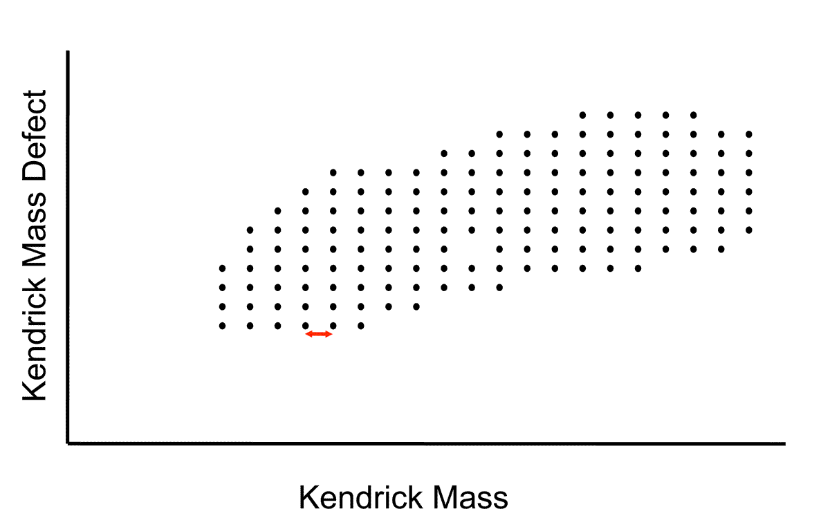 A general Kendrick mass defect vs. Kendrick mass adapted (and generalized) from Kim 2003 See also secondary sources Meija 2006, Figure 7; Panda 2007, Figure 2; and Reemtsma 2009, Figure 3.